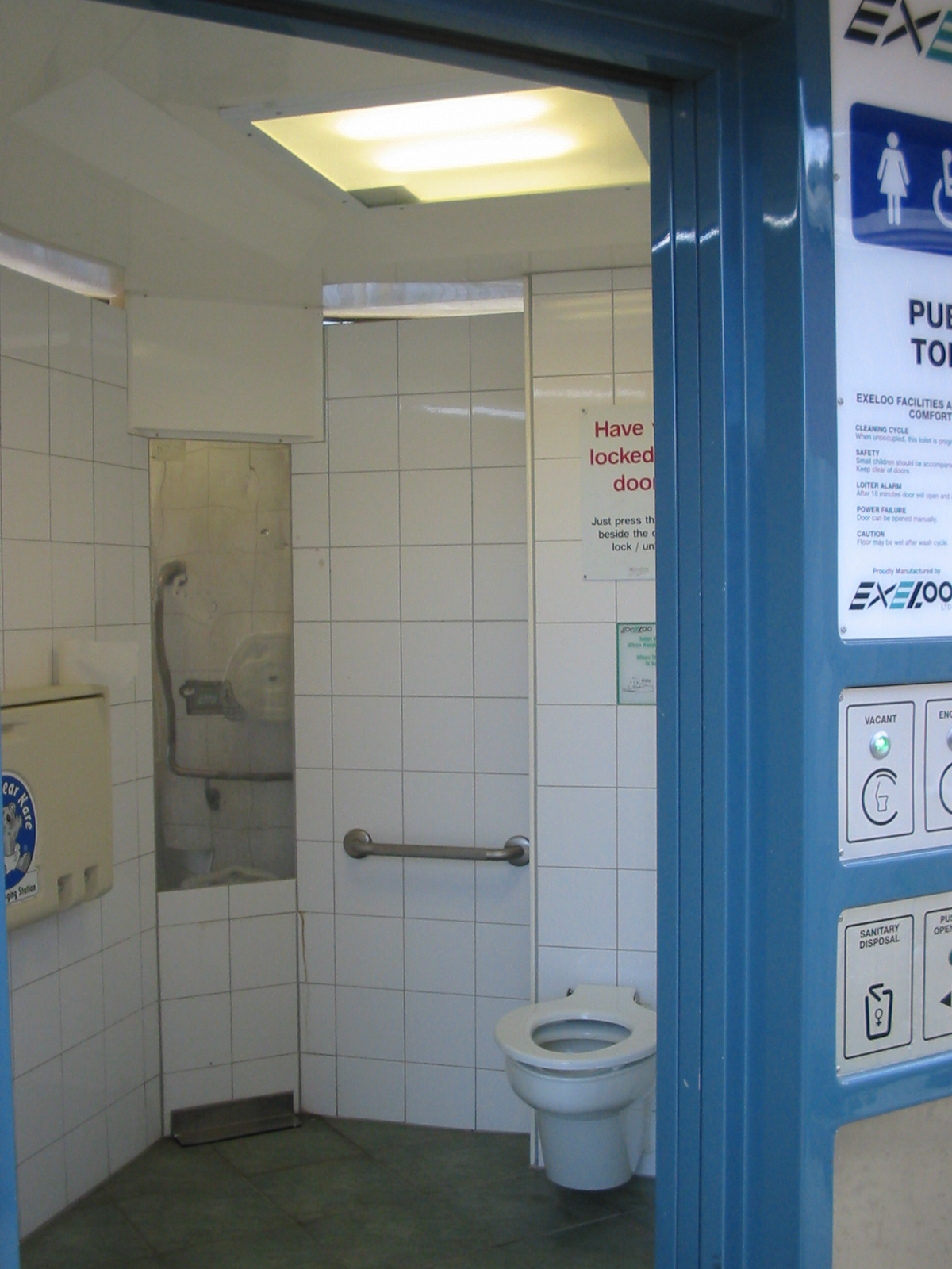 Automatic toilet, Picton, NZ